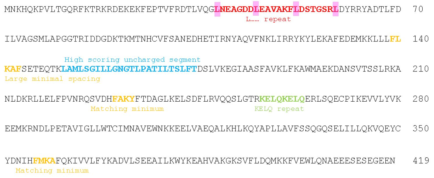 From SAPS, BZW2 is shown with postiions of spacing, repeats, and charge clusters.